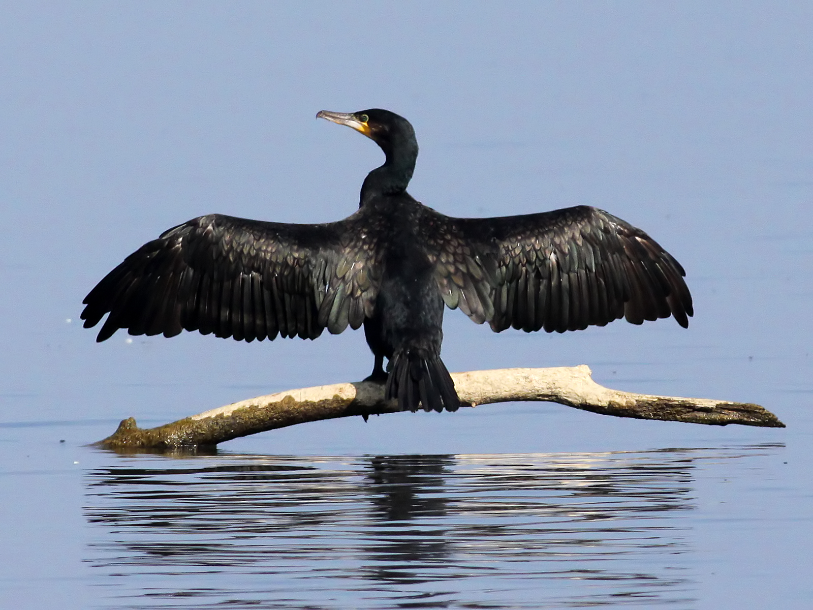 Cormorant (Phalacrocorax carbo) Photo taken on the Rheindamm, Vorarlberg, Austria